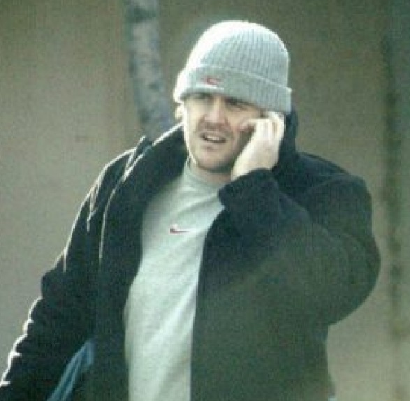 Image of DC Manning undercover in 2006